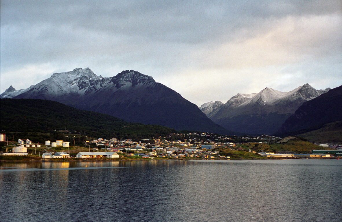 Ushuaia from sea